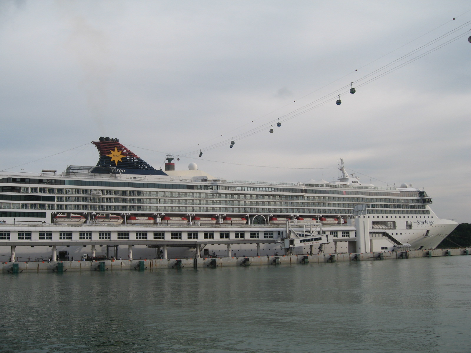 . Taken by Terence Ong in June 2006.